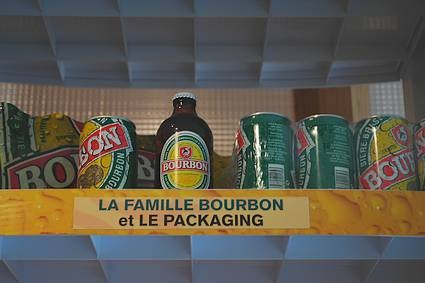 Maison de la Dodo from the Brasserie de Bourbon brewery